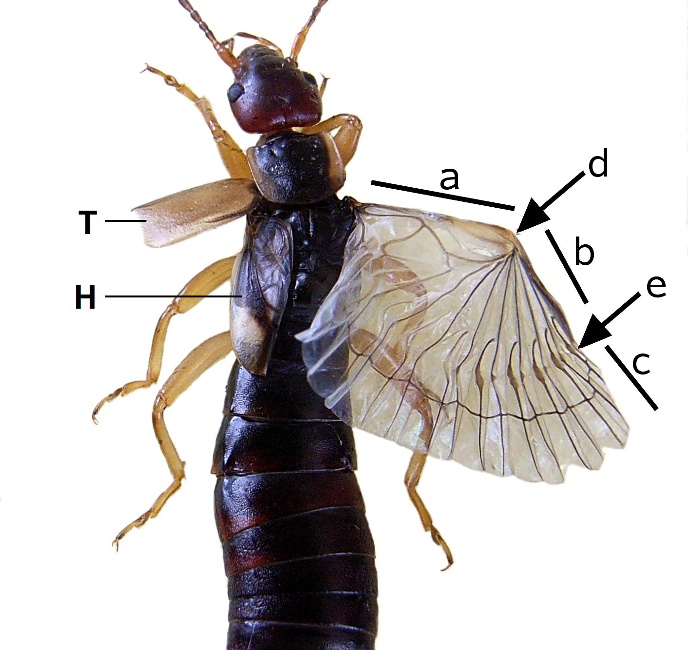 earwig, left forwing opened, left hindwing folded, right forwing cut, right hindwing half folded. Folding: The hindwing is folded fanlike parallel to the lines b and c, then bended along prolongation of arrow e, then the two piles are bended round the articulation (arrow d) and deposed under the part parallel to a.